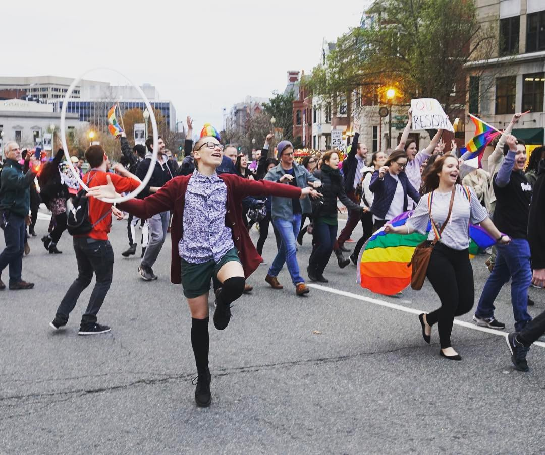 Dancing into the future. Washington, DC USA #dc #instadc ️‍🌈🔥